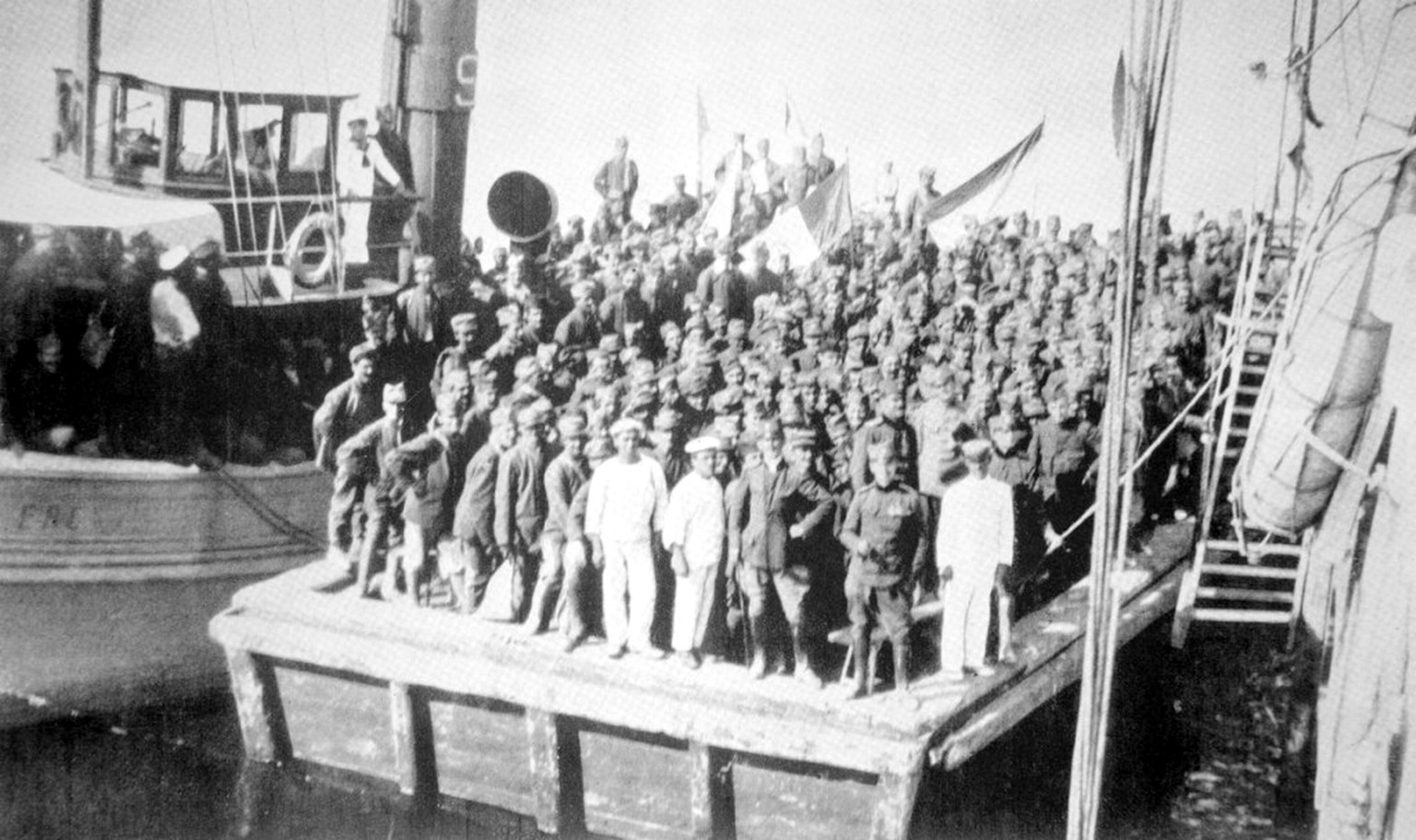 Military of the 1st Serbian volunteer Division embarked on a barge, during their transportation in Romania (on Danube river - August 1916)